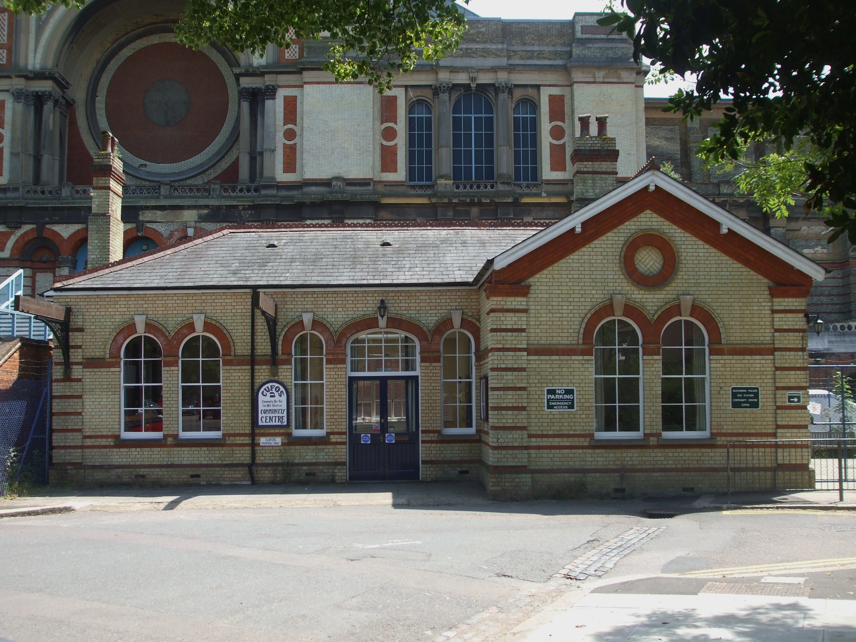 The former Alexandra Palace station building on the Muswell Hill branch from Highgate, closed in 1954. It is now still intact and in use as a Community Centre (CUFOS). The Palace itself is in the background.